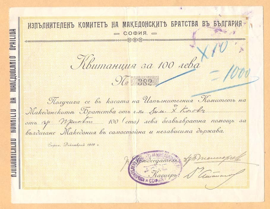 Разписка на СМЕО на стойност 100 лв